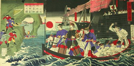 A sea-land battle from the Korean Uprising